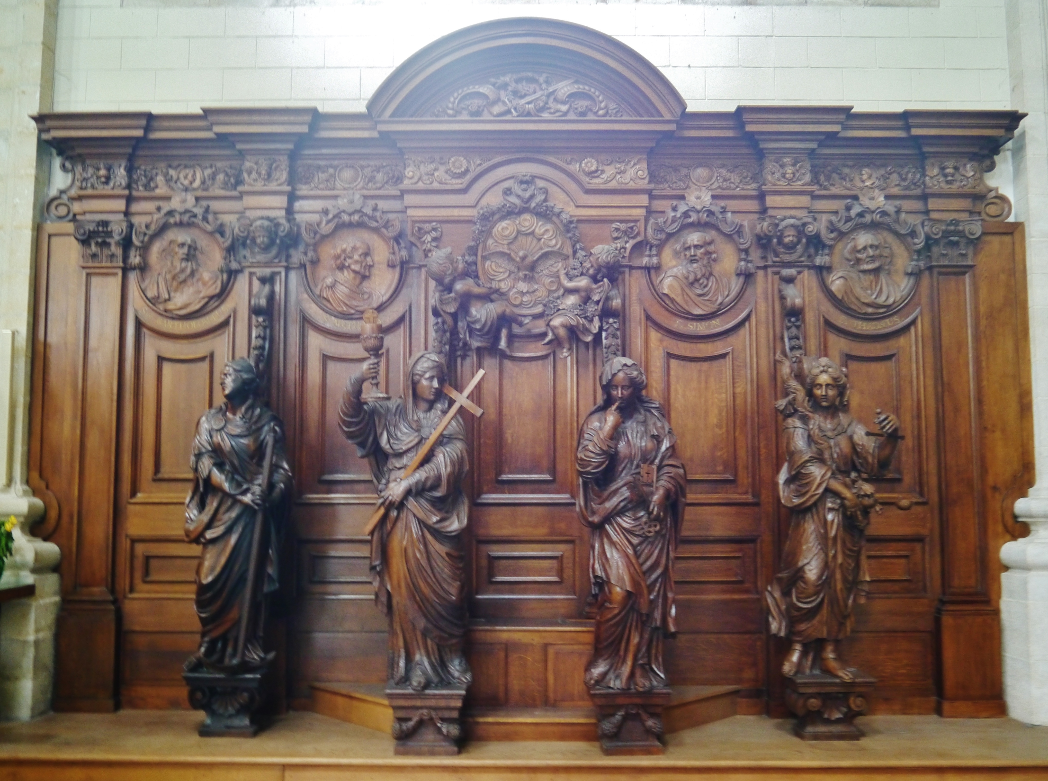 Confessional of the Basilica St. Servatius, Grimbergen, Province of Flemish Brabant, Flanders, Belgium